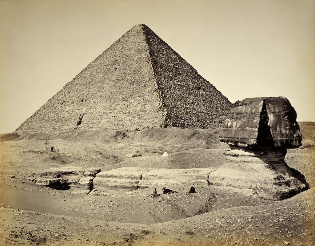 The Great Pyramid (Pyramid of Khufu, Cheop's pyramid) and the Great Sphinx, on the Giza Plateau